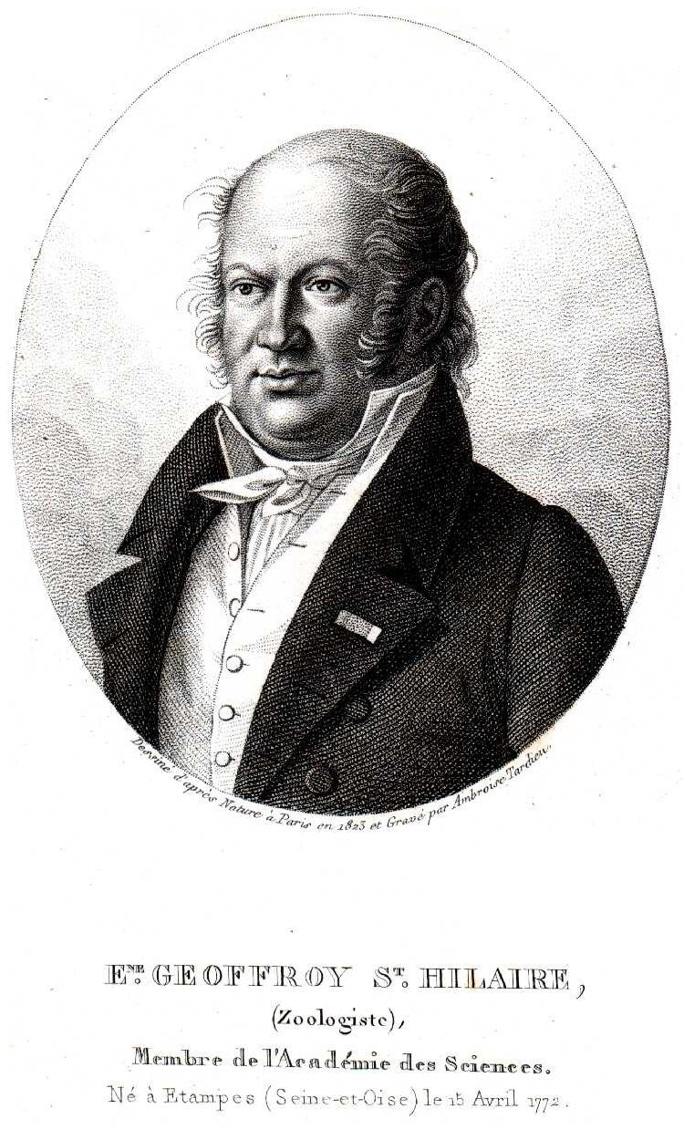 Engraving of Étienne Geoffroy Saint-Hilaire, by Ambroise Tardieu.